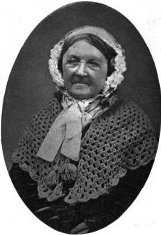 Mary Smith, wife of Scots missionary Robert Moffat